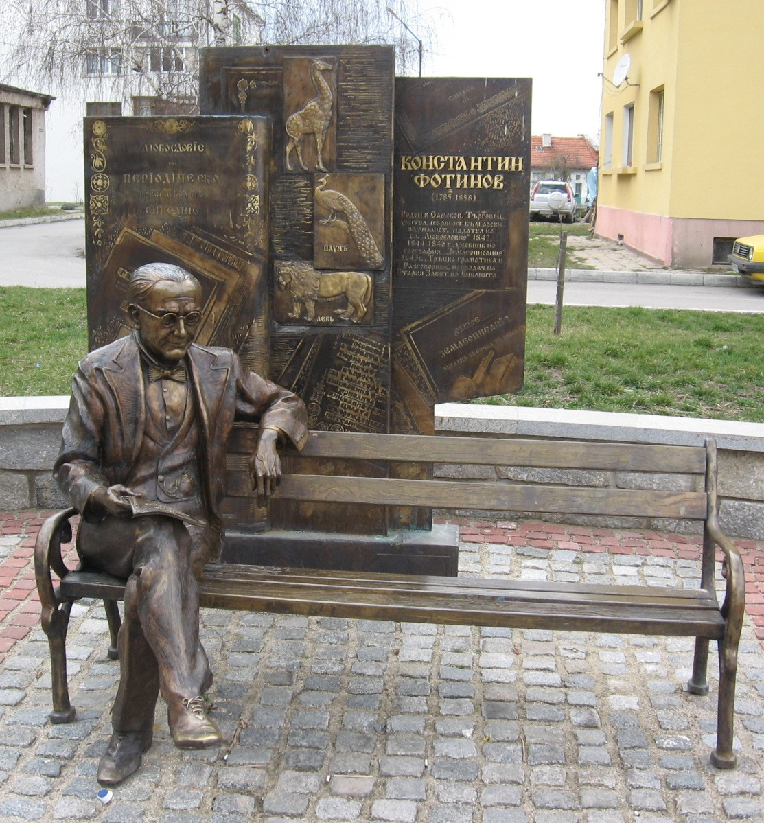 Monument to Konstantin Fotinov in Samokov